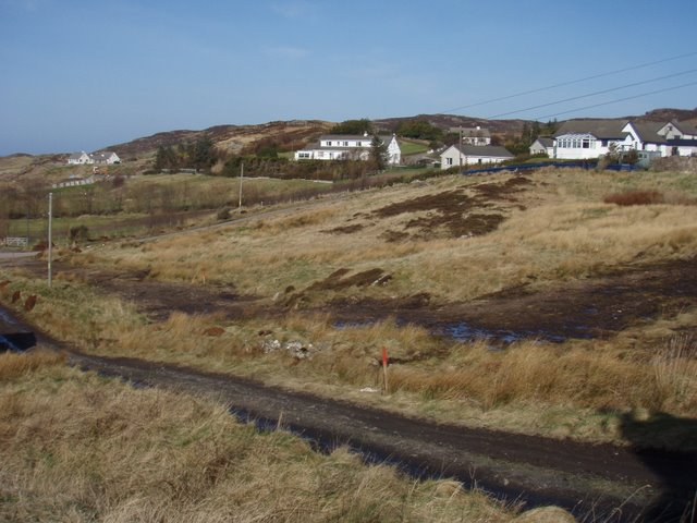 Mellon Charles